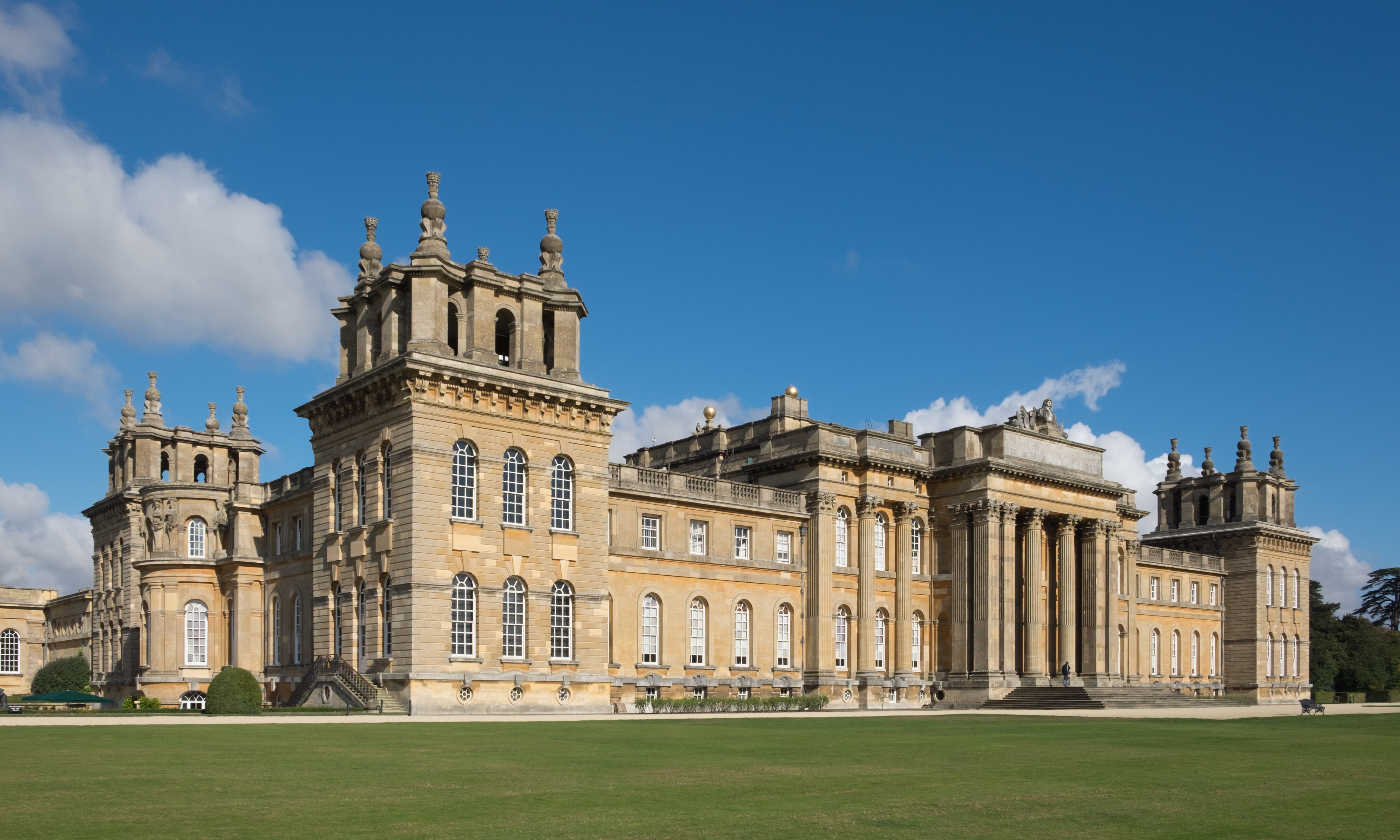 Blenheim Palace from the south. This place is a UNESCO World Heritage Site, listed as Blenheim Palace.